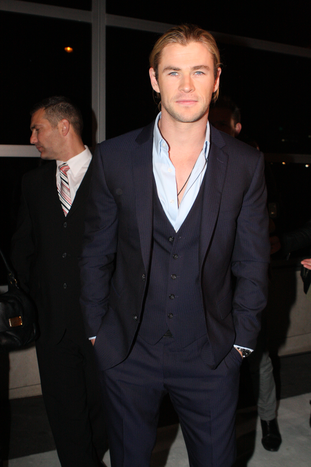 Kristen Stewart and Chris Hemsworth attend 'Snow White and the Huntsman' movie premiere - Bondi Junction, Sydney